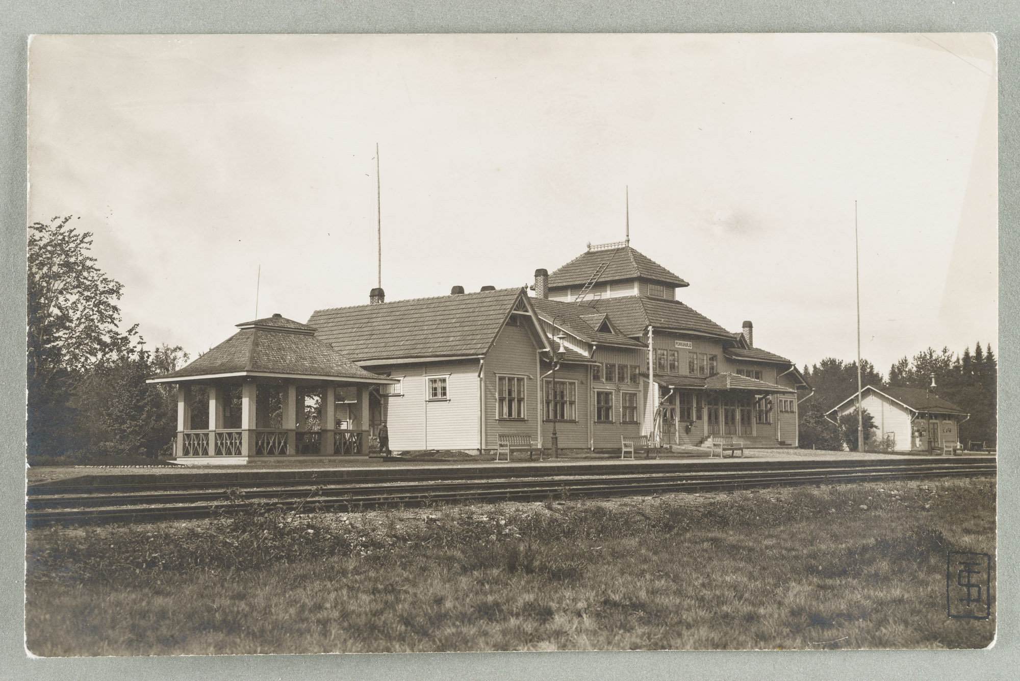 Punkaharju station